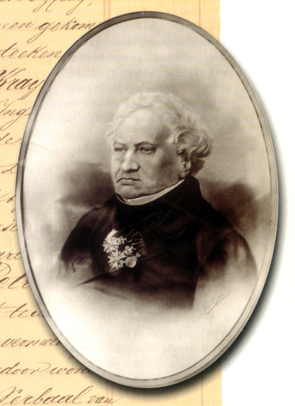 Petrus Regout (1801-1878), Dutch industrialist and founder of Maastricht potteries (Sphinx). Portrait by unknown draftsman, c 1870.